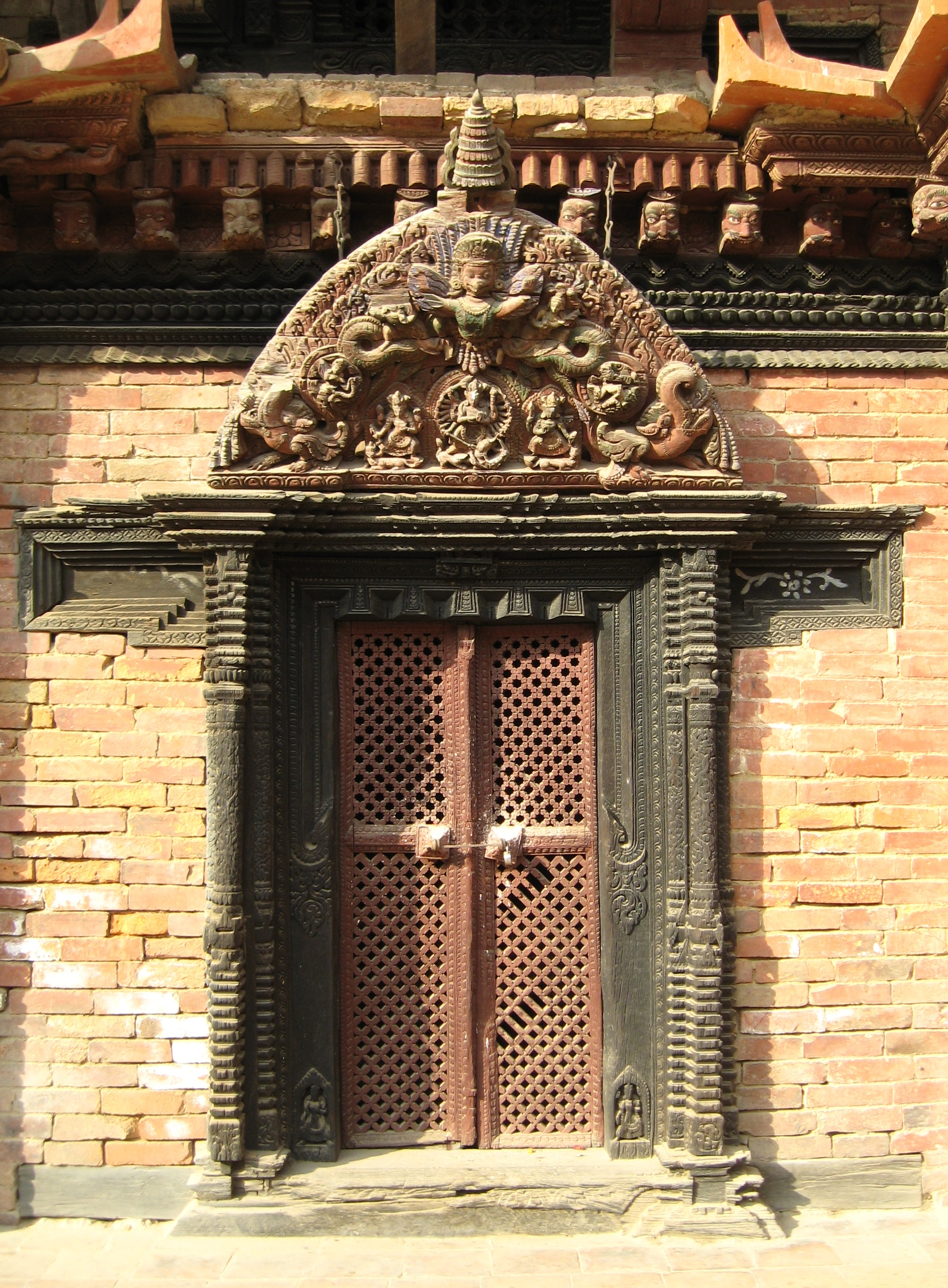 The Patan Durbar Square in Kathmandu. Object location27° 40′ 24″ N, 85° 19′ 30″ E